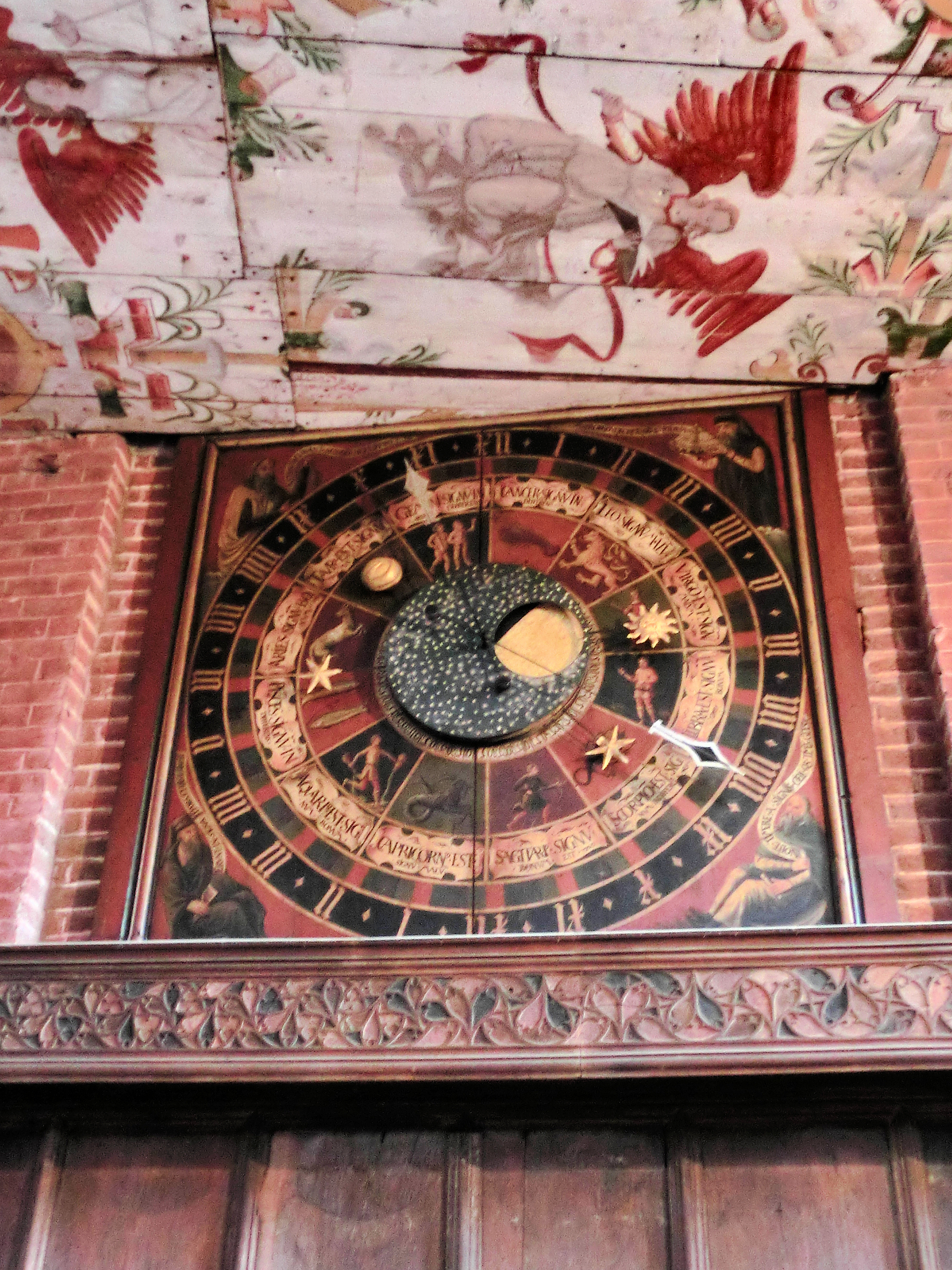 Astronomical clock face, Stendal church of Our Lady, Germany Stendal Marienkirche Astronomische Uhr